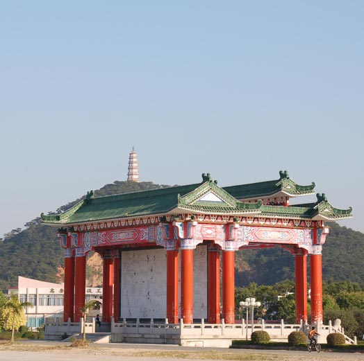 This is a photograph of the second of two traditional pagodas located in Gaoyao City in Guangdong Province of China.